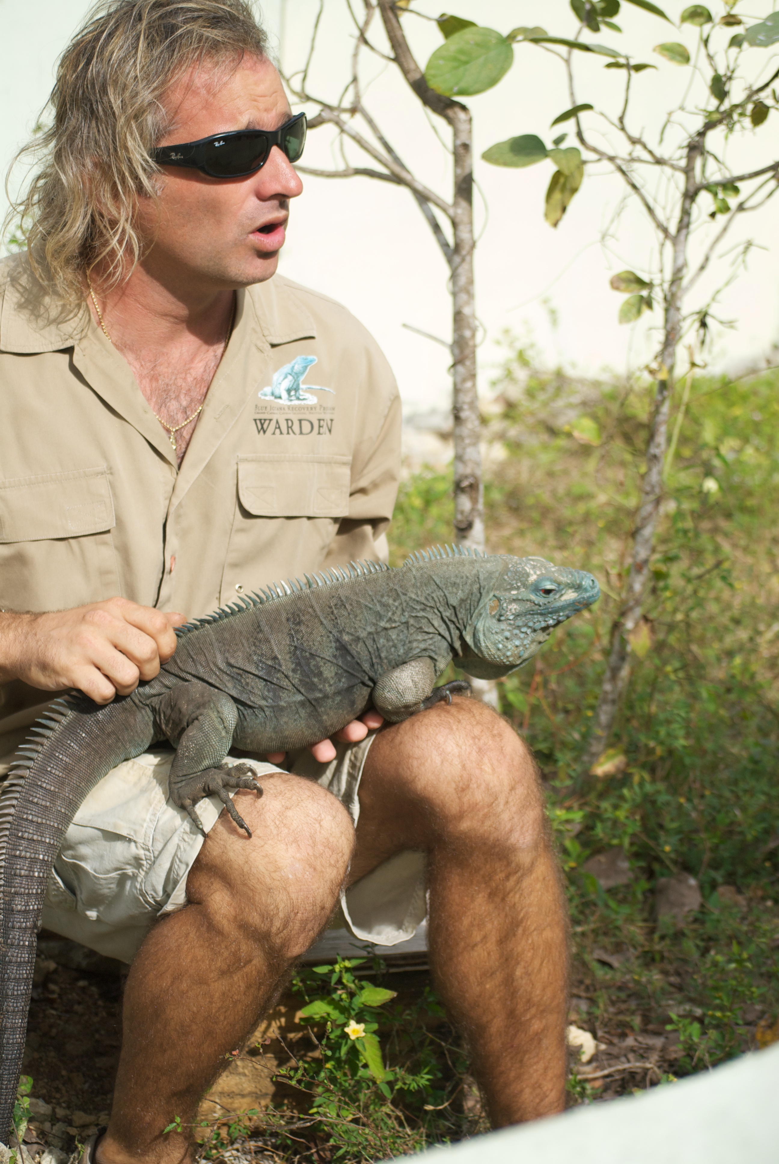 A Blue Iguana with a warden at Queen Elizabeth II Botanic Park, Grand Cayman, Cayman Islands. The warden is educating tourists about the iguana.